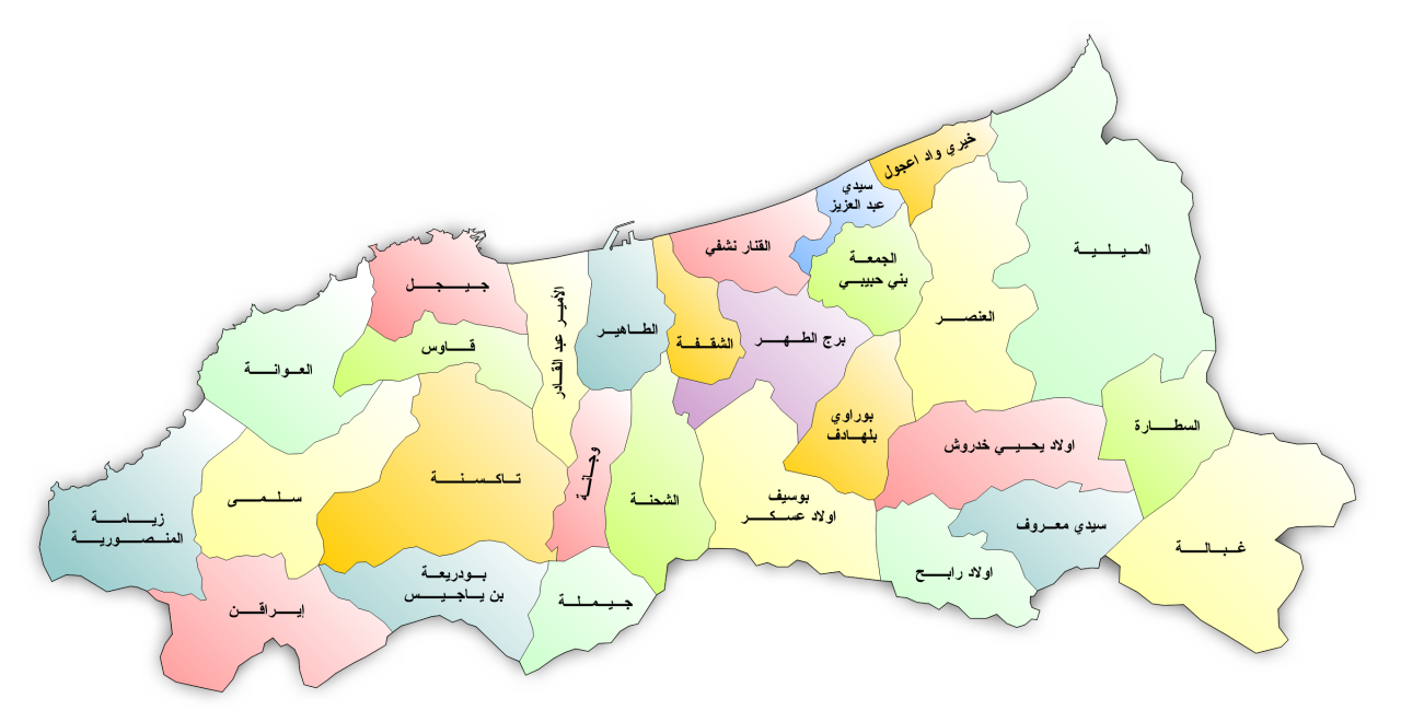 Map of Jijel province (The Municipalities) - Algeria